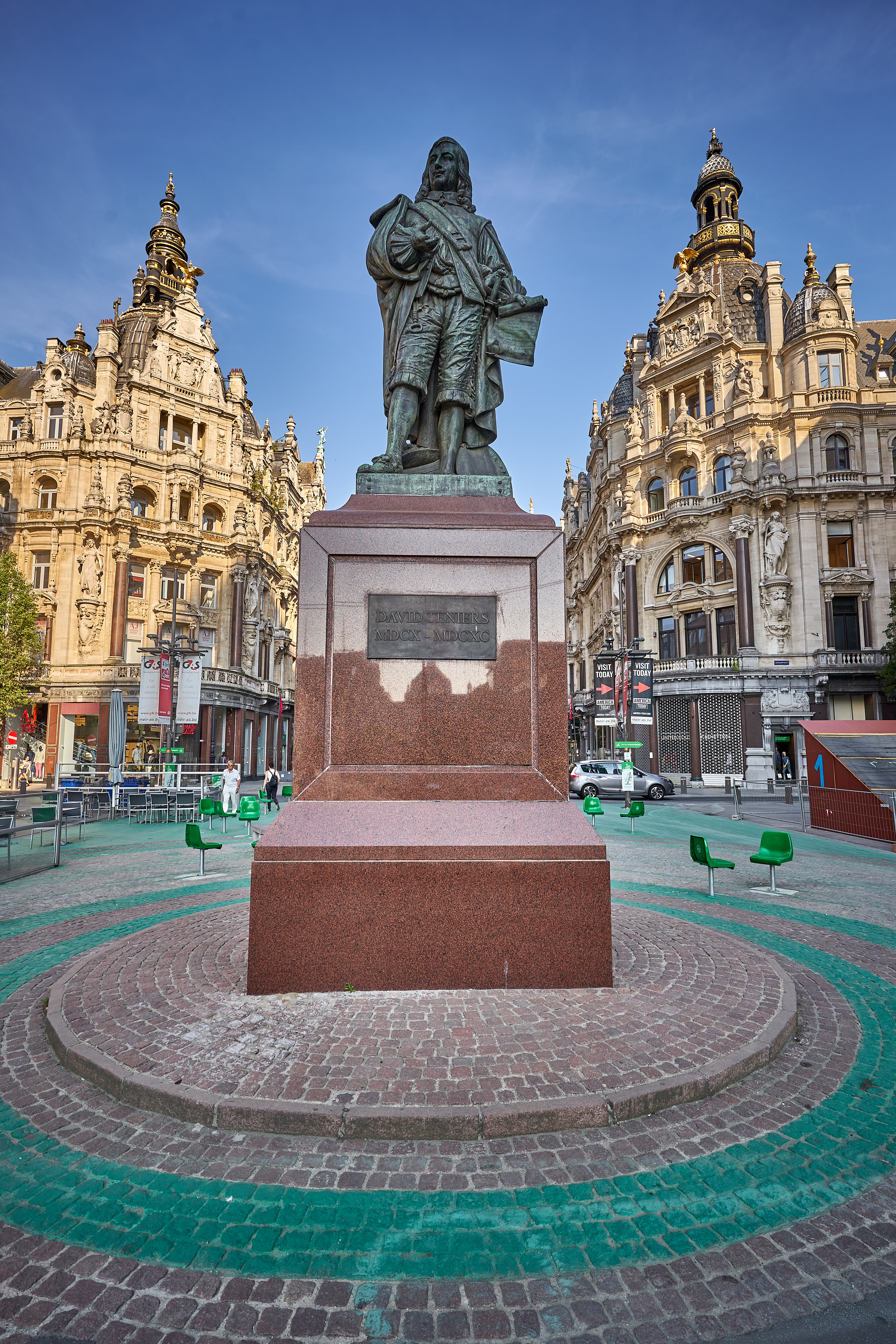 Statue of David Teniers on Teniersplaats in Antwerp